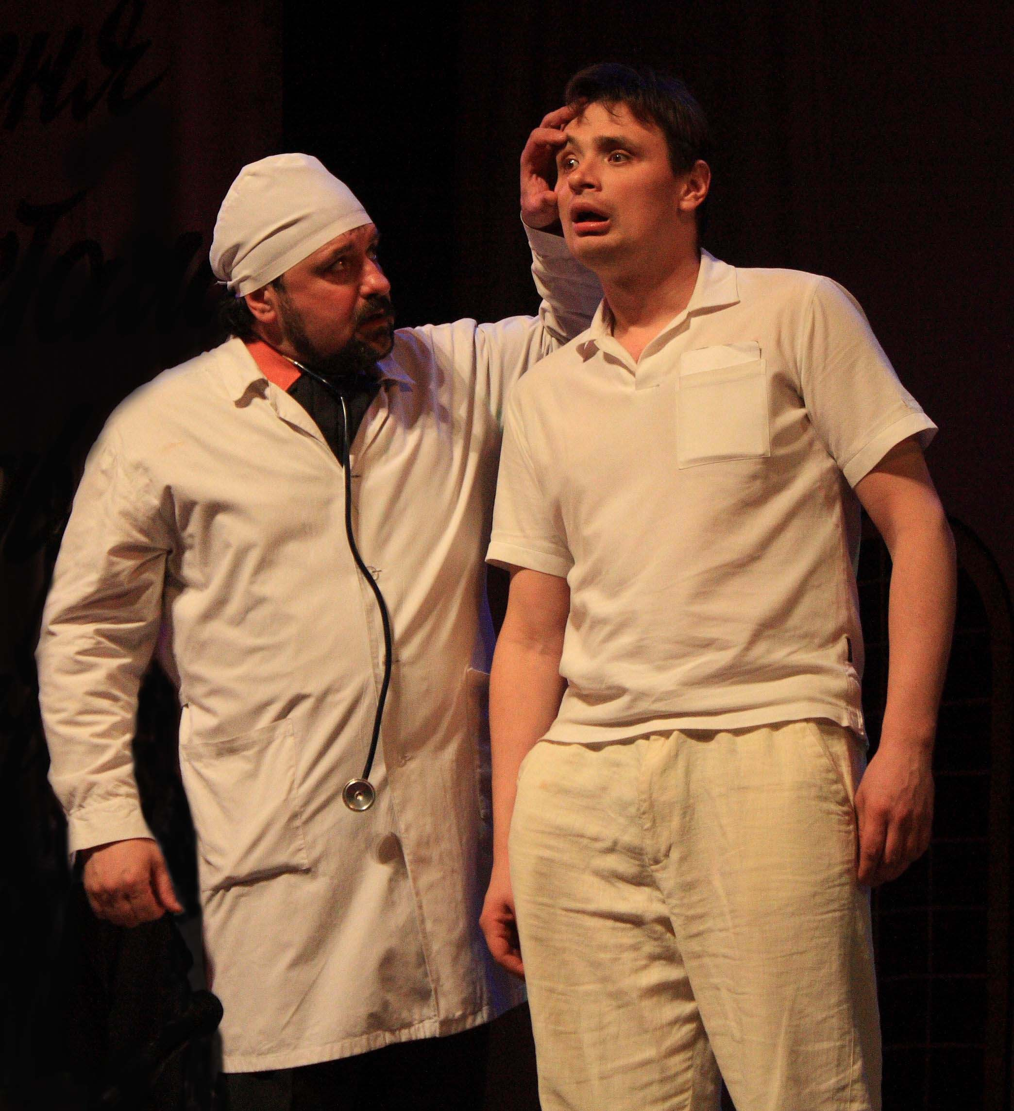 Play (theatre) «The Master and Margarita»